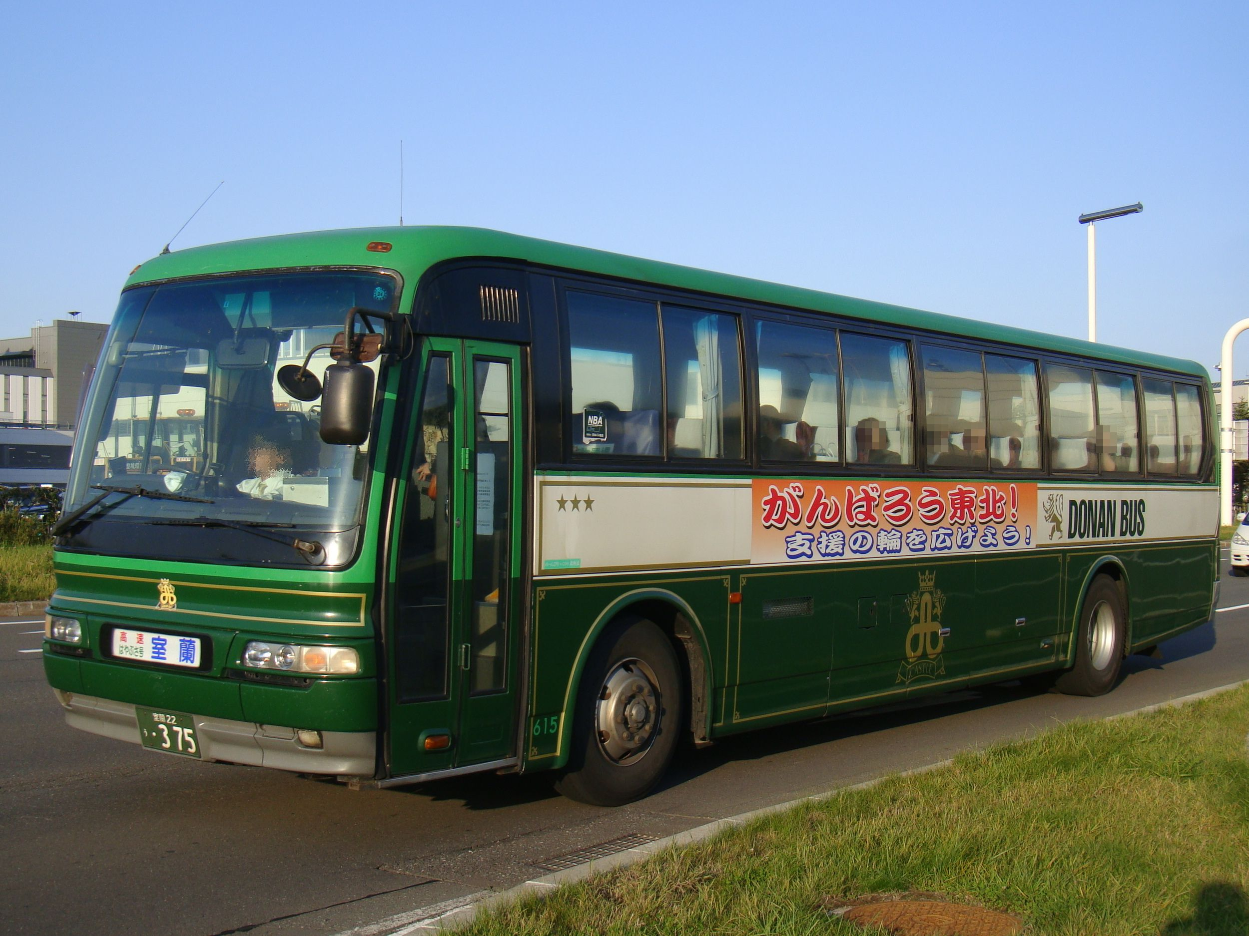 "Kōsoku Hayabusa gō" New Chitose Airport to Muroran